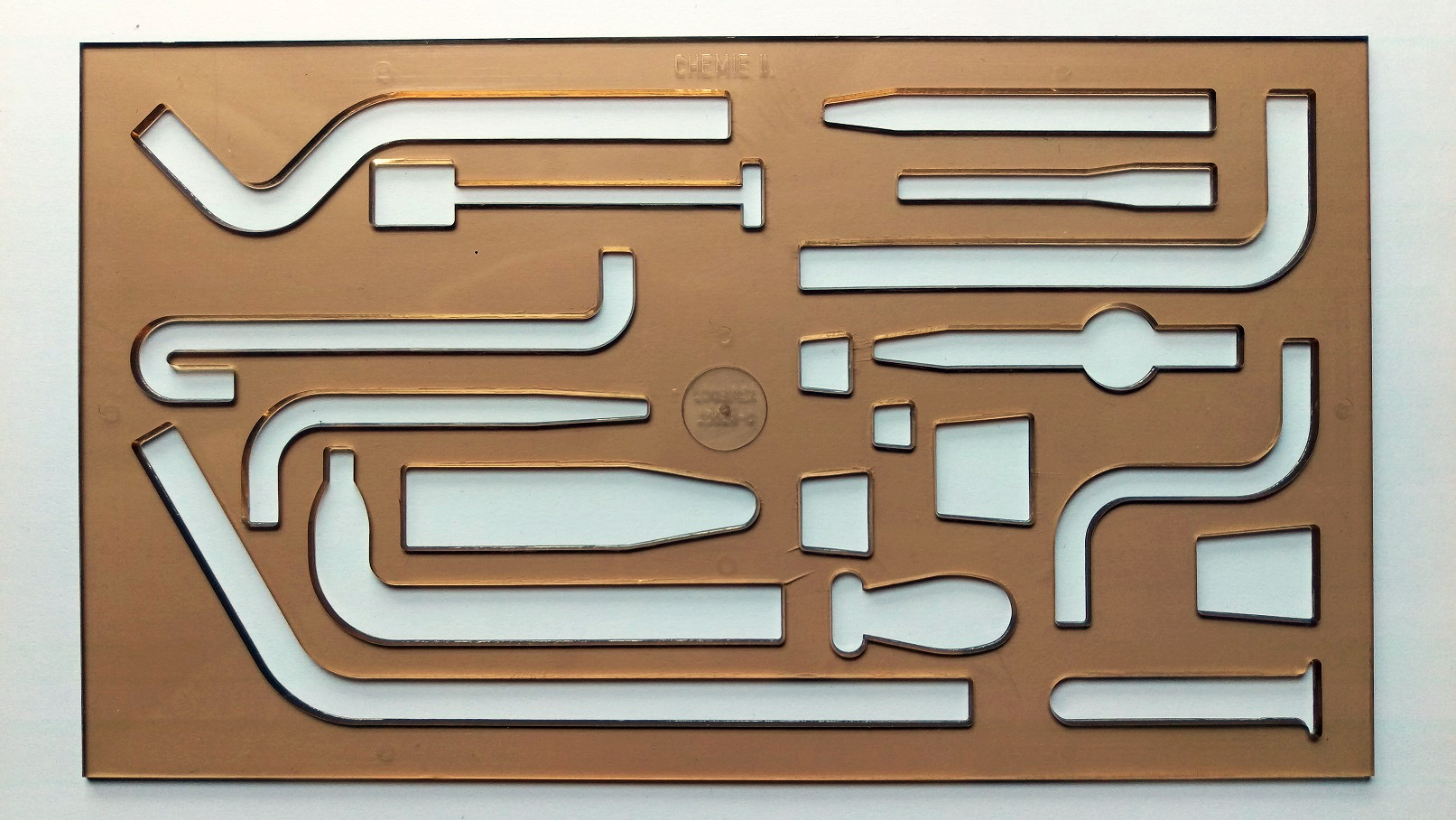 Stencil for drawing of chemical equipment